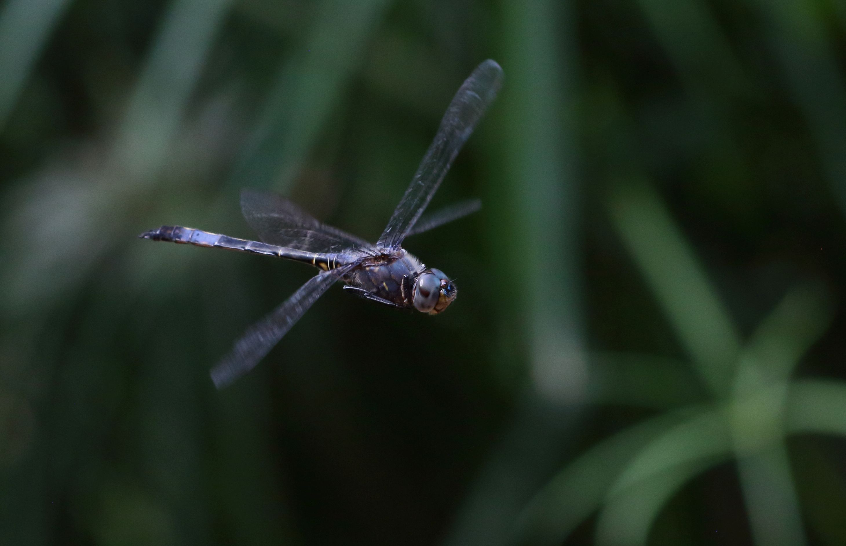 Immature male blue cascader Zygonyx natalensis in flight; at Rockydale, Pietermaritzburg, South Africa.